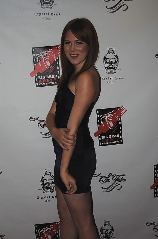 Sonja O'Hara is a Canadian actress from Halifax, Nova Scotia. She is best known for playing the role of Stephanie Storms in the 2011 American horror film, The Victorville Massacre. O'Hara at Big Bear Film Festival red carpet for The Victorville Massacre- Oct 2012